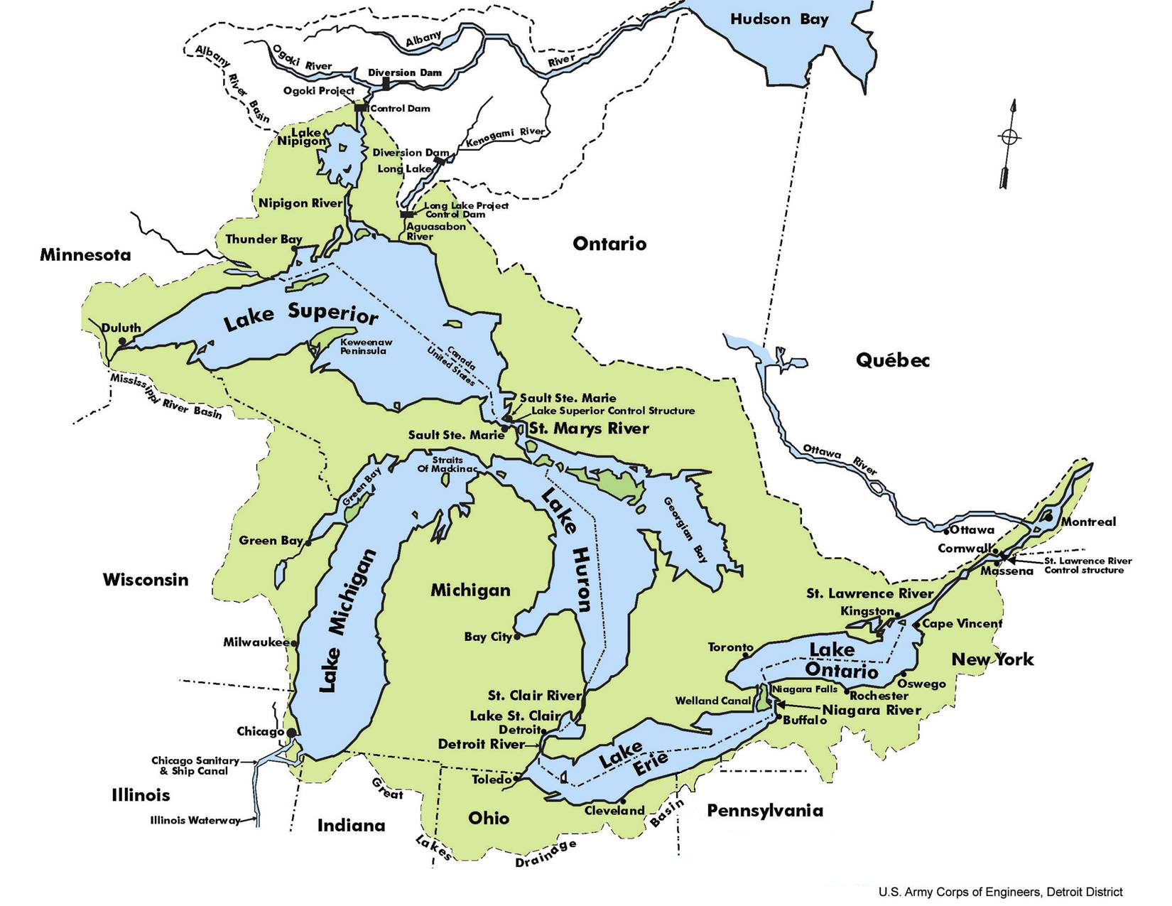 Map of the Great Lakes Basin, produced by the Detroit office of the US Army Corps of Engineers. It includes not only the Great Lakes, but the watersheds that drain the surrounding lands and waterways that feed those lakes.